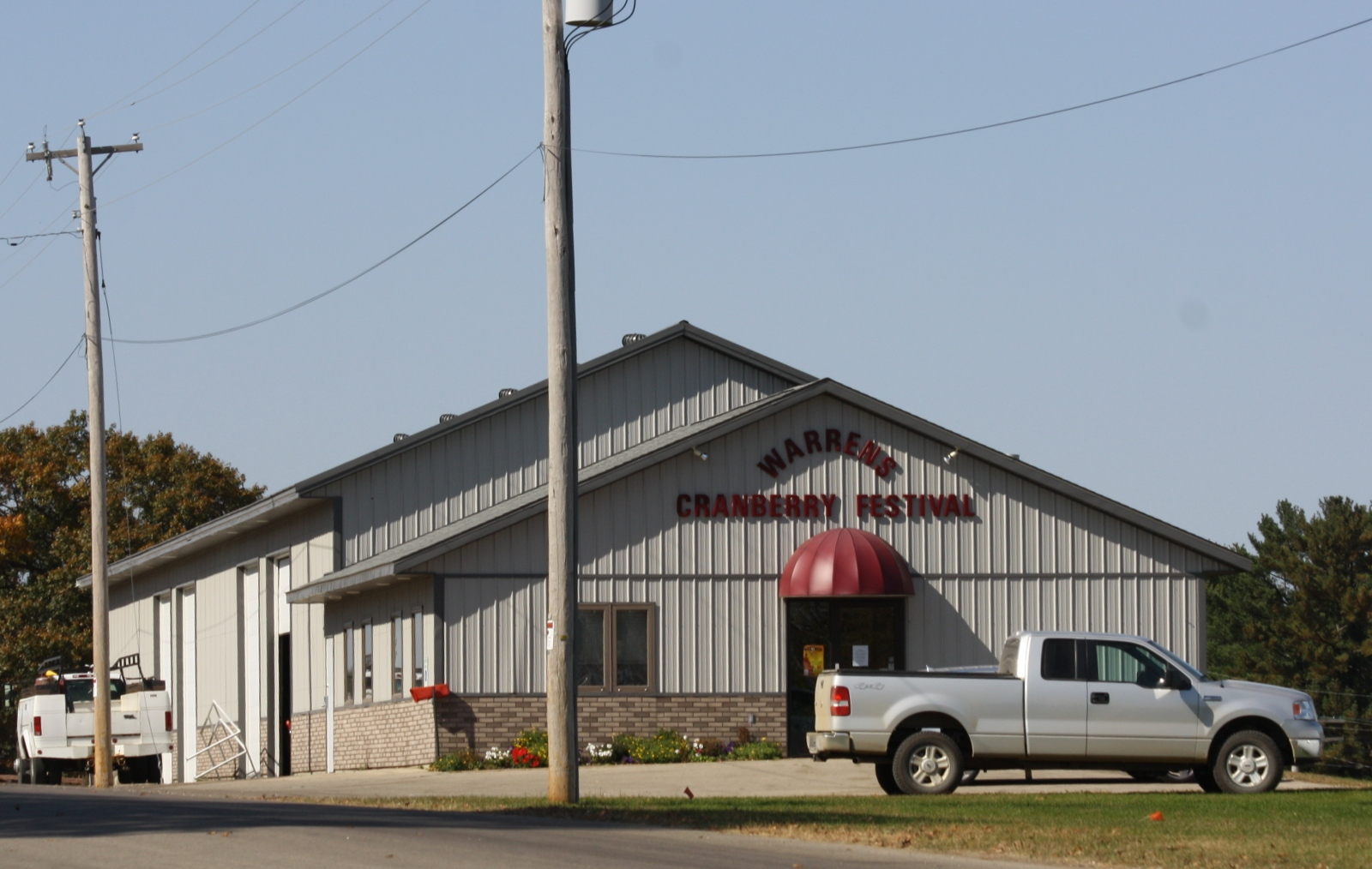 The Warrens Cranberry Festival building in downtown Warrens, Wisconsin.